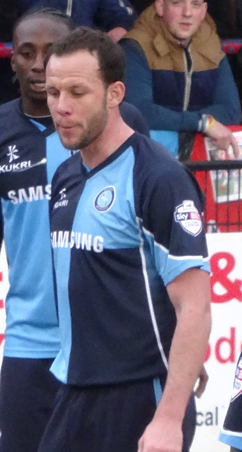 Sam Togwell.